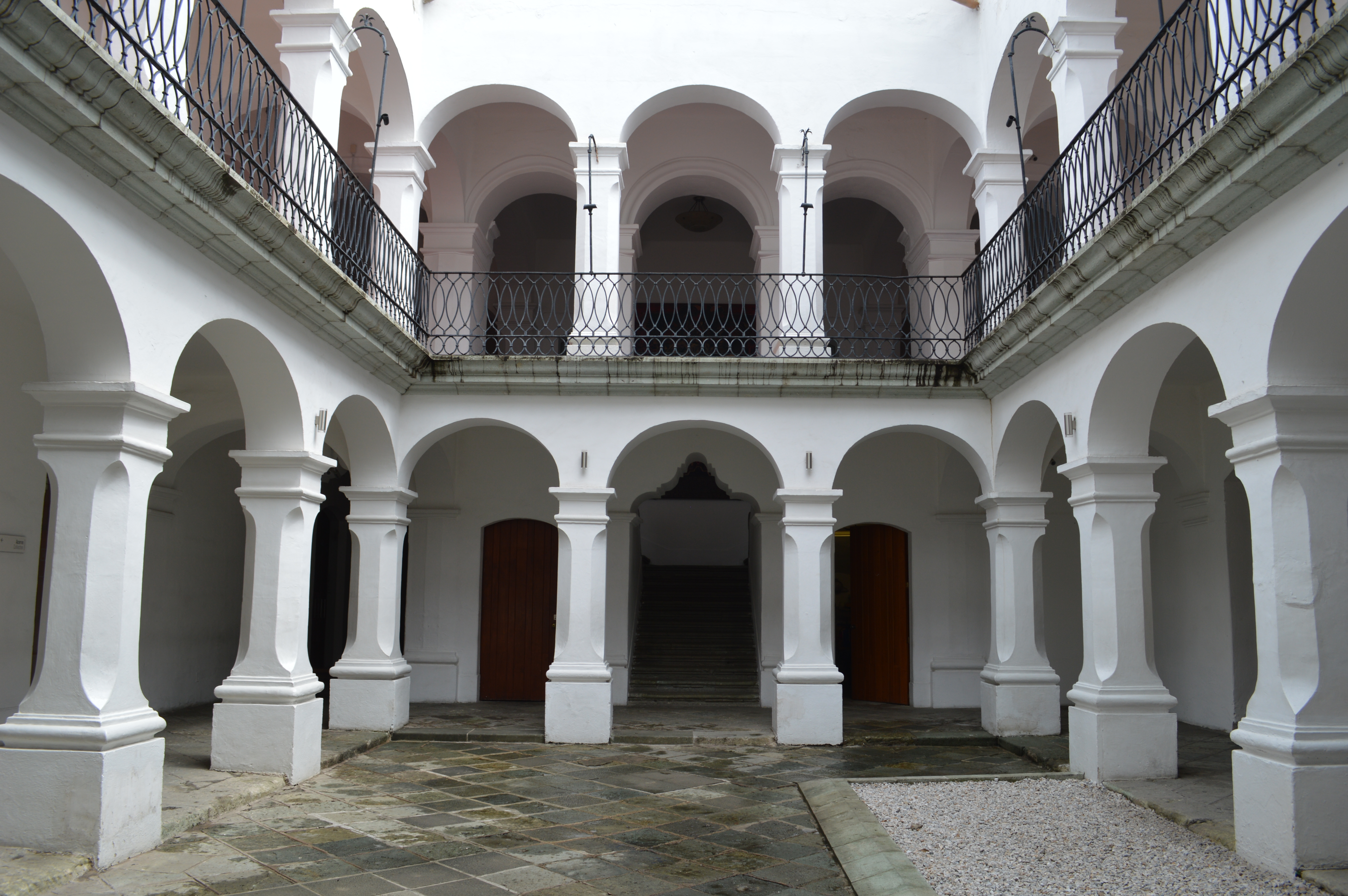 Courtyard of the Museo de los Pintores Oaxaqueños in the city of Oaxaca, Mexico